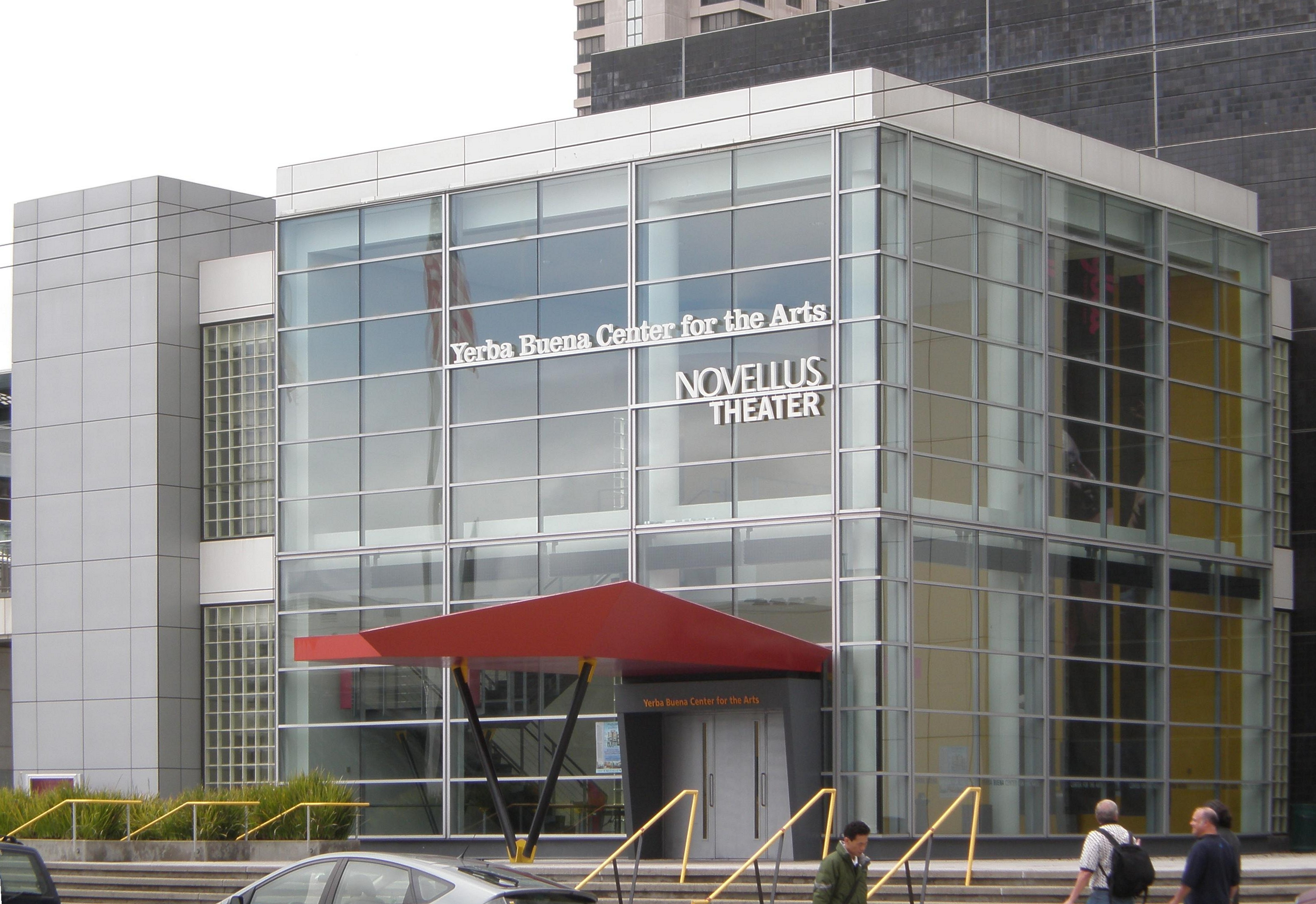 The main entrance to the Novellus Theater of the Yerba Buena Center for the Arts at Yerba Buena Gardens in San Francisco, California.